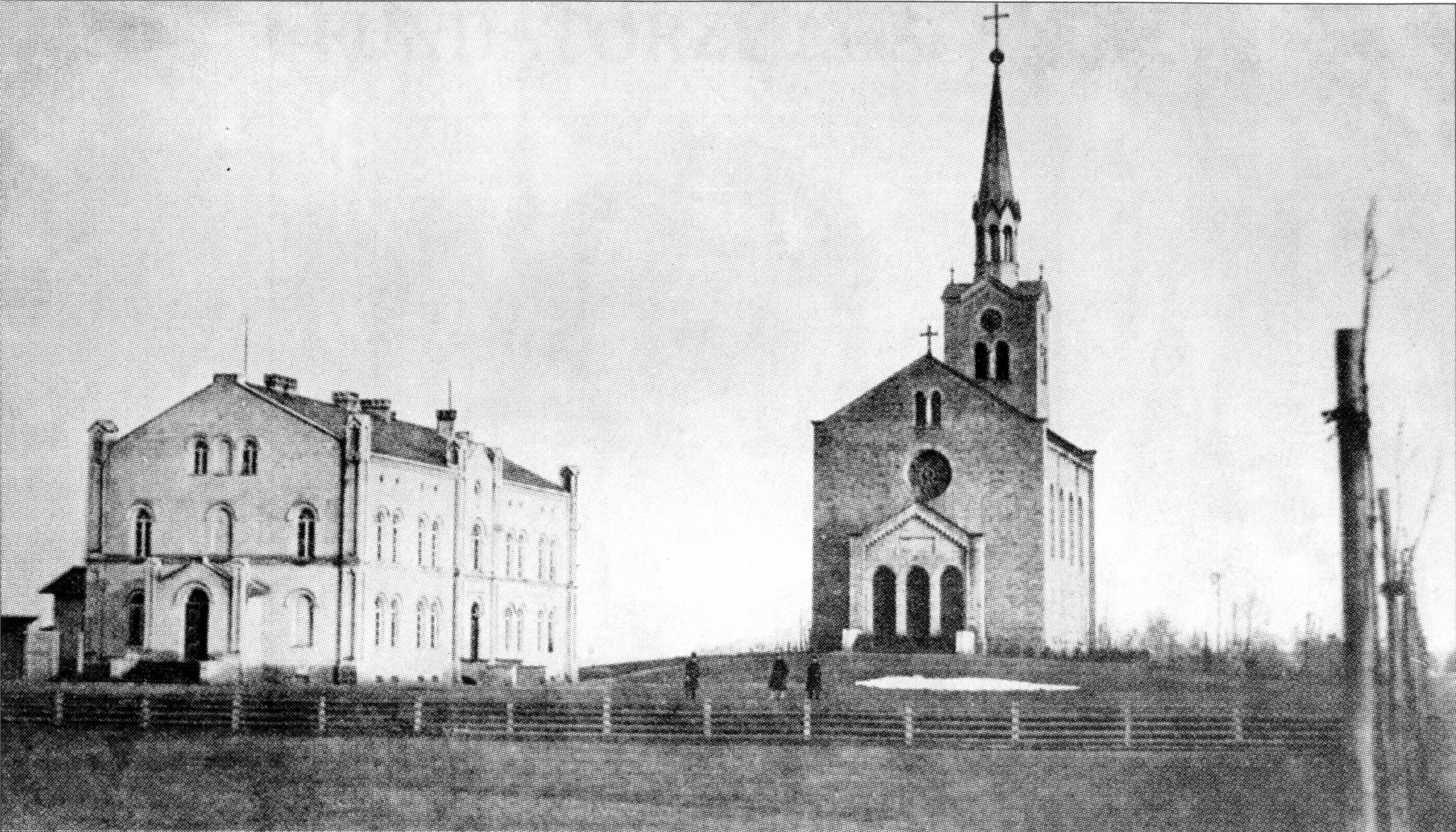 Protestant church and school in Kattowitz, Upper Silesia.